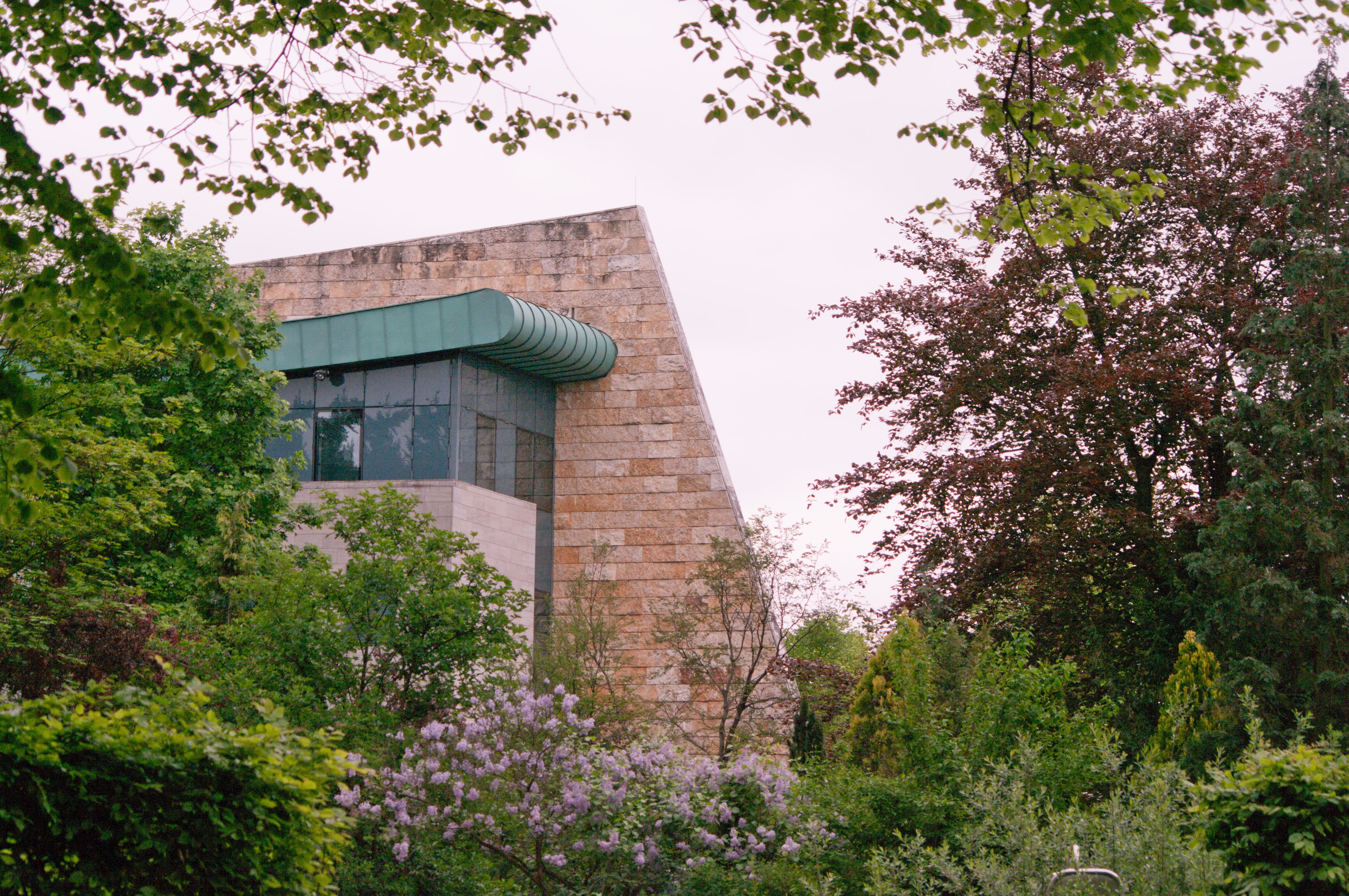 Israeli Embassy, Berlin, as seen from Reinzerstraße, Berlin-Schmargendorf.